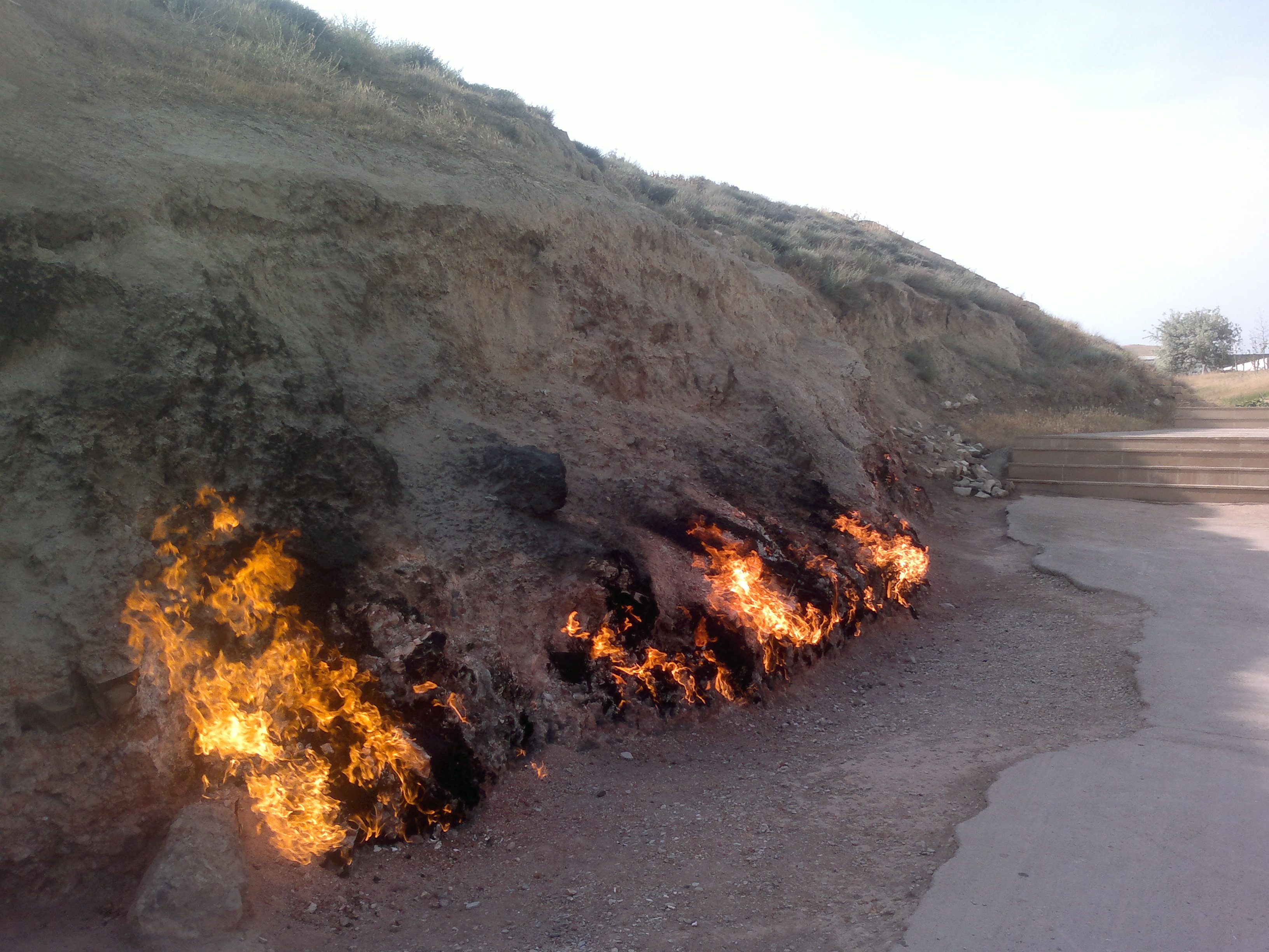 Yanar Dag